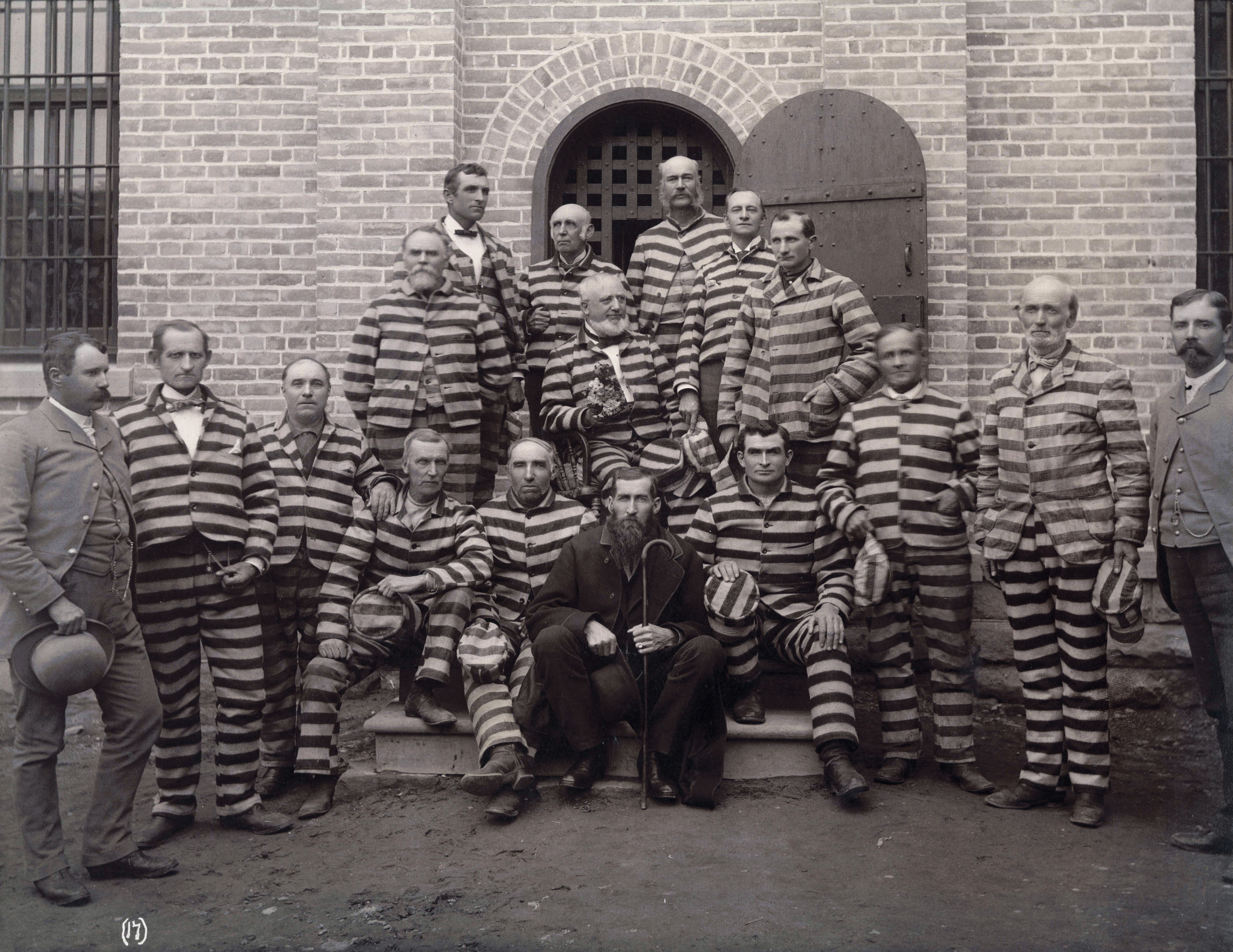 Portrait of Mormon polygamists in prison, at the Utah Penitentiary, including: George Q. Cannon (1827-1901), an Apostle for The Church of Jesus Christ of Latter-day Saints. Niels Jensen Aagard (1835-1892) sitting in the front middle without prison stripes Elijah Funk Sheets (1821-1904) Lorenzo Argyle (1852-1940) Winslow Farr (1837-1913) Pleasant Green Taylor (1827-1917) James Campbell Hamilton (1846-1920) Abraham Alonzo Kimball (1846-1889) Levi James Taylor (1851-1935) John Jardine (1830-1903) Herman Frederick Ferdinand Thorup(1849-1929) Far Right, not in Striped Suit